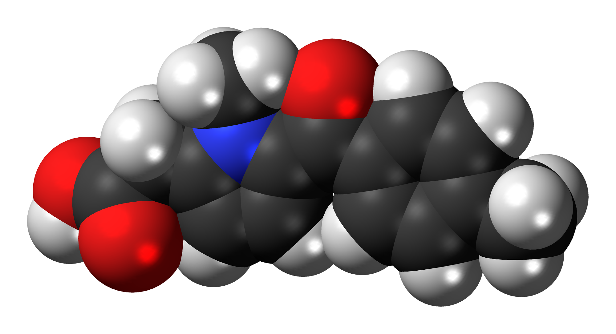 Space-filling model of the tolmetin molecule, an anti-inflammatory drug. Colour code: Carbon, C: black Hydrogen, H: white Oxygen, O: red Nitrogen, N: blue